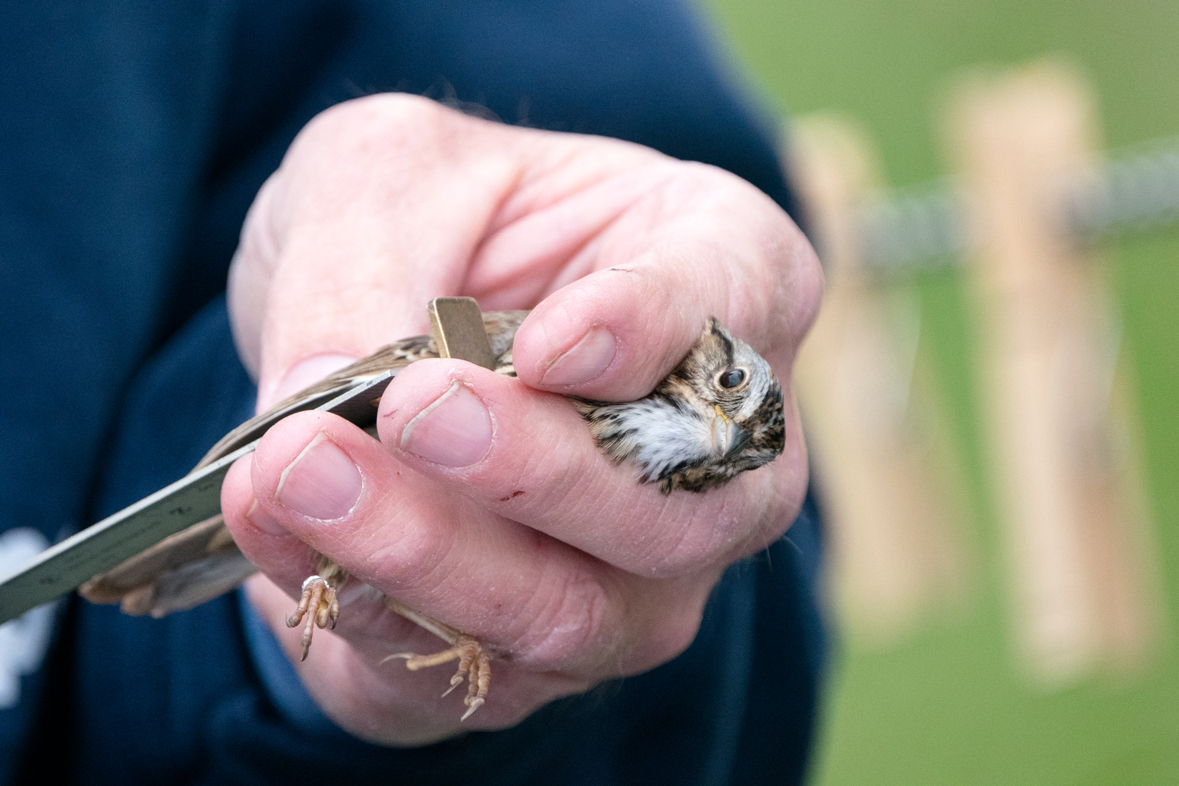 A researcher uses a wing ruler to measures a Lincoln's sparrow wing at a bird banding station at Murphy-Hanrehan Park Reserve in Savage, Minnesota. The bird was captured in a mist net.